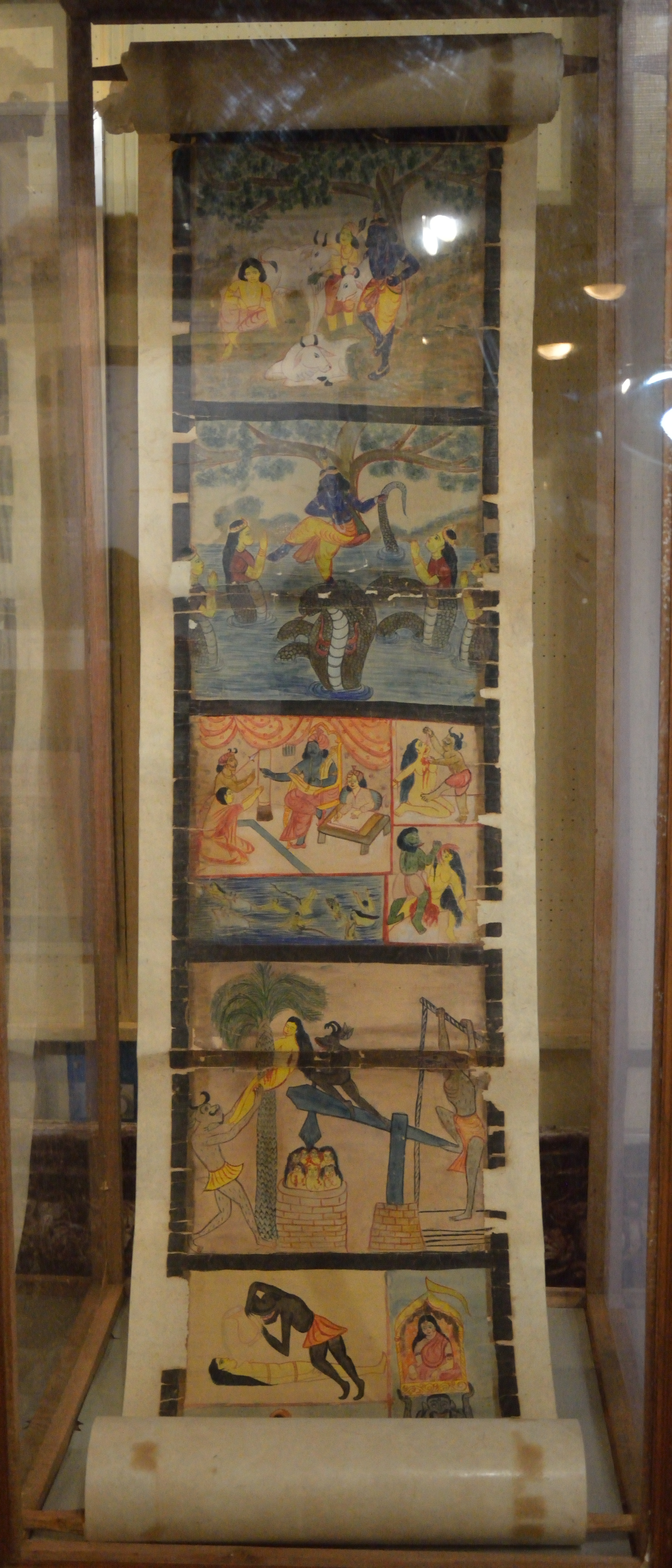 Photographed during the 'Unveiling the Earth' tilted exhibition of Archaeological Activities, was held at the Gaganendranath Shilpa Pradarshashala, Kolkata from 12th to 15th September, 2014. It was organized by the Directorate of Archaeology & Museums of Information & cultural Affairs Department, West Bengal State Government.